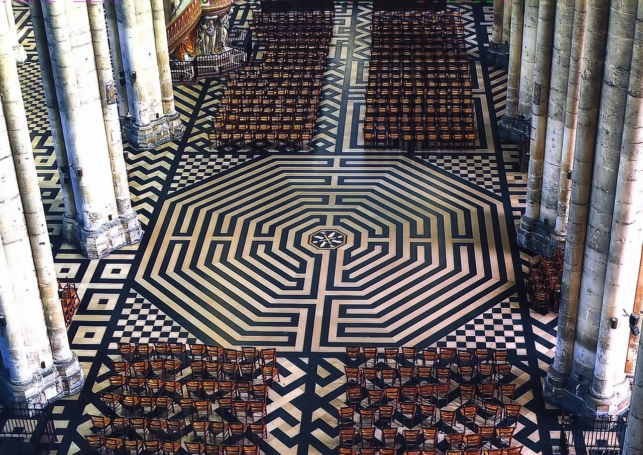 Picardie, Amiens, cathédrale Notre-Dame, le labyrinthe vu depuis l'orgue. Ce labyrinthe octogonal, au Moyen Âge, était parcouru à genoux par des pèlerins.